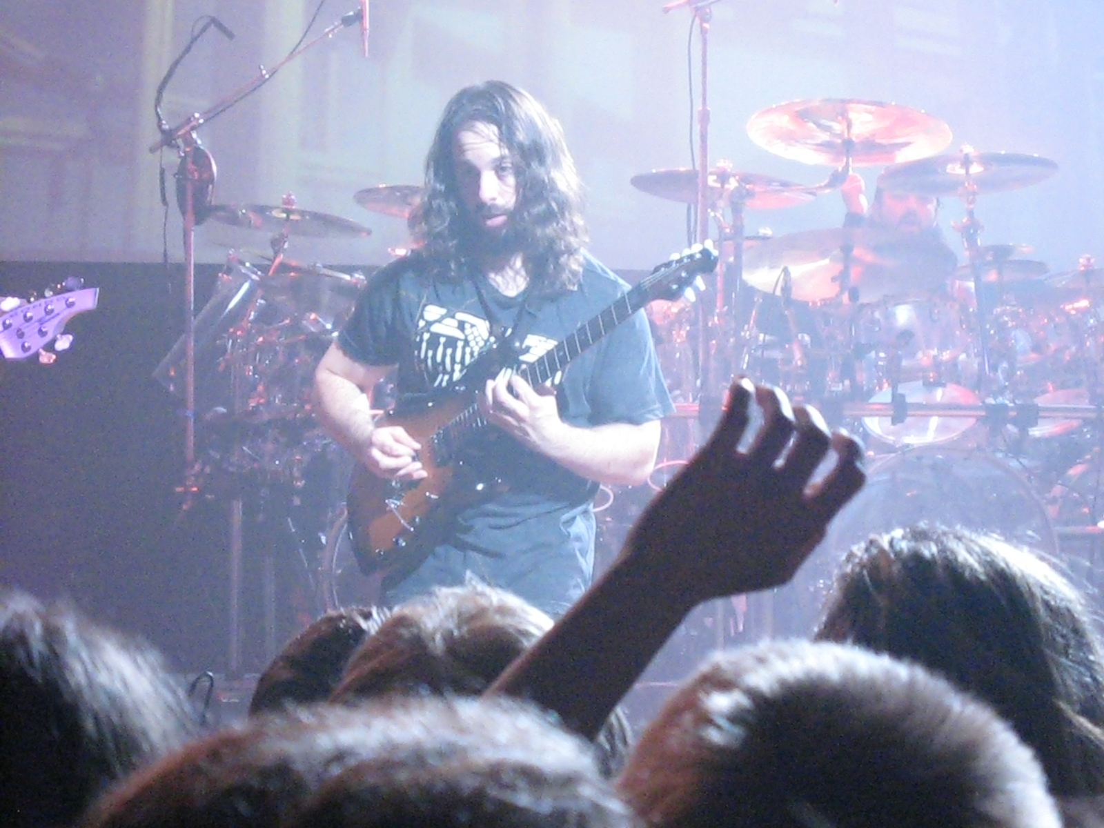 John Petrucci from Dream Theater at Newport, 2007-11-09.